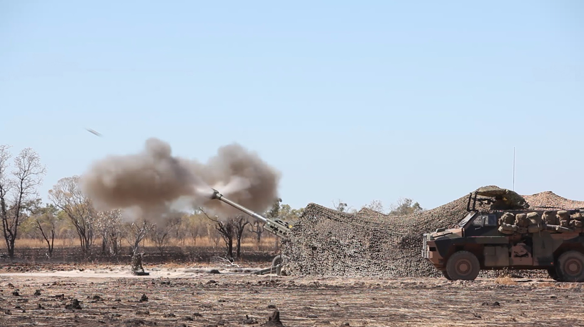 An M777A2 lightweight 155 mm howitzer with 101st Battery, 8th/12th Regiment, Royal Australian Artillery, Australian Army, fires a projectile in support of a U.S. Marine Corps air assault course June 29 at Bradshaw Field Training Area, Northern Territory, Australia. The AAC was a bilateral combined arms training event that combined light infantry, indirect fire weapons systems and air assets to capture and fight through a mock enemy objective.